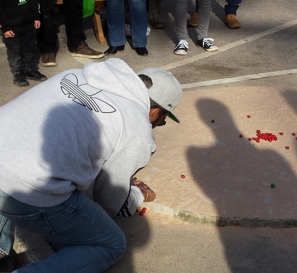 A scene from one of the earlier rounds of the 2016 British and World Marbles Championship.